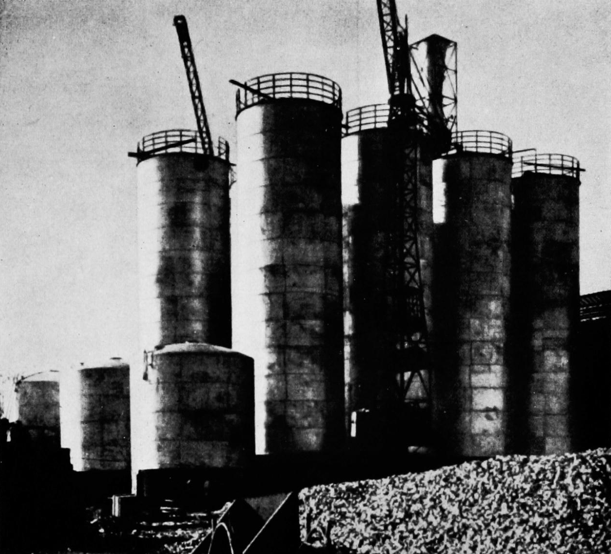 Chemical plant absorbing tower made of stainless steel Krupp V2A. According to the source, the tower was Bamag-Megnin A.G.'s property in Berlin, the tower was assembled by welding.The picture was taken in 1937 or earlier.